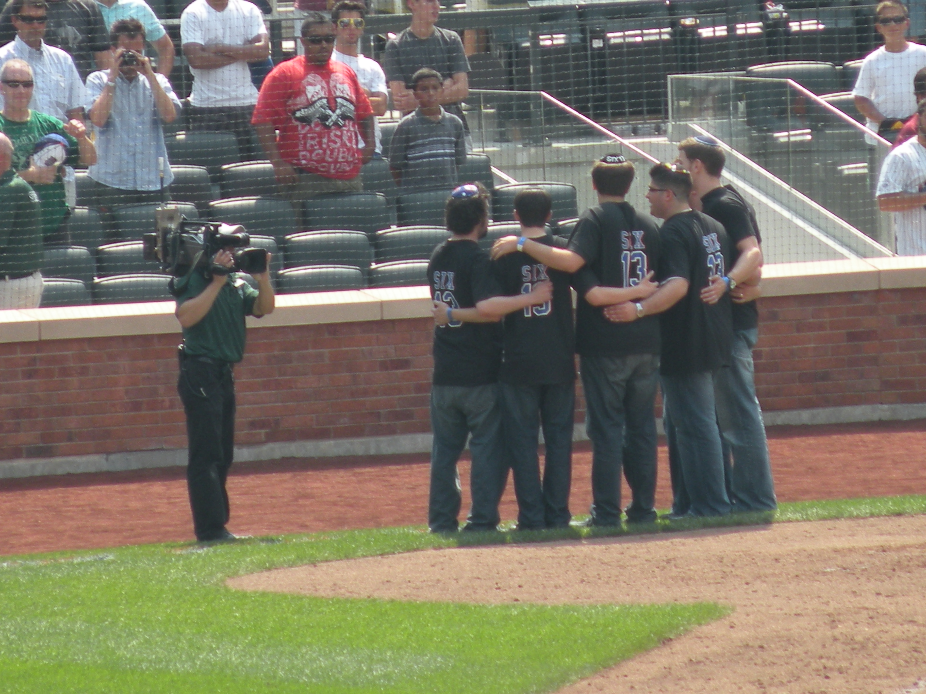 Jewish A Capella Group Six13 sings "God Bless America" as part of Jewish Heritage Day at Citi Field, New York